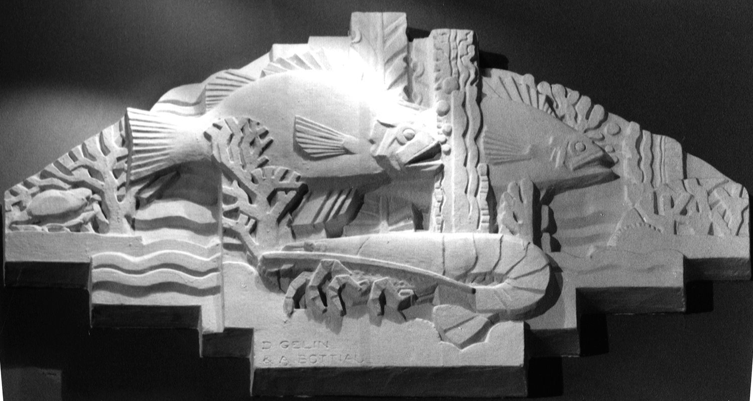 Bas-relief by Denis Gélin and Alfred Bottiau, Eaton's Ninth Floor, Montreal, CanadaEaton's Ninth Floor Restaurant